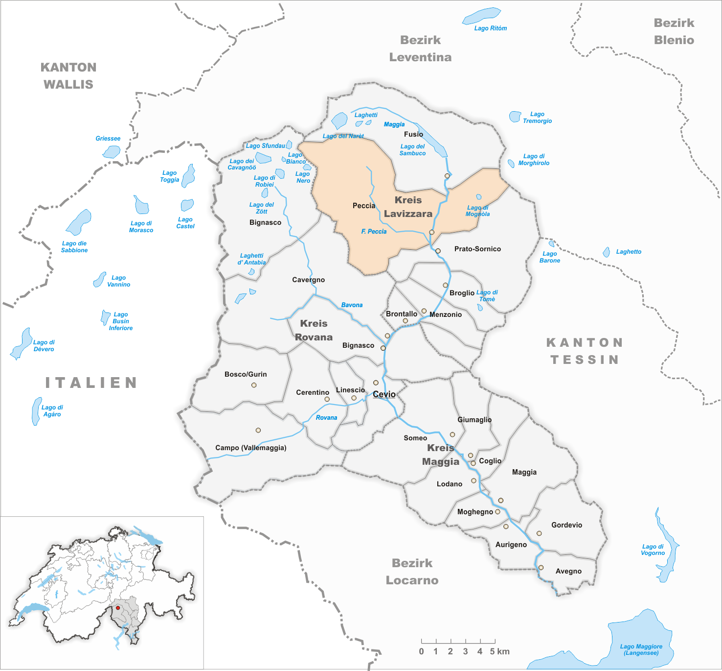 Municipality Peccia